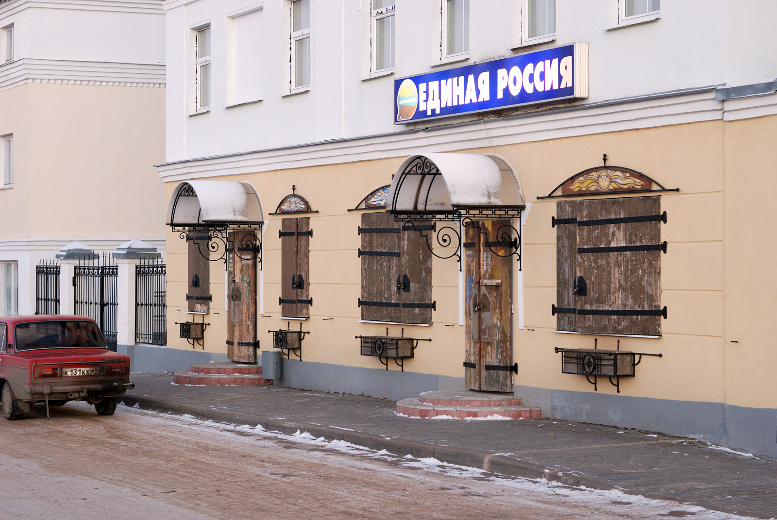 Torzhok, Edinaya Russia office